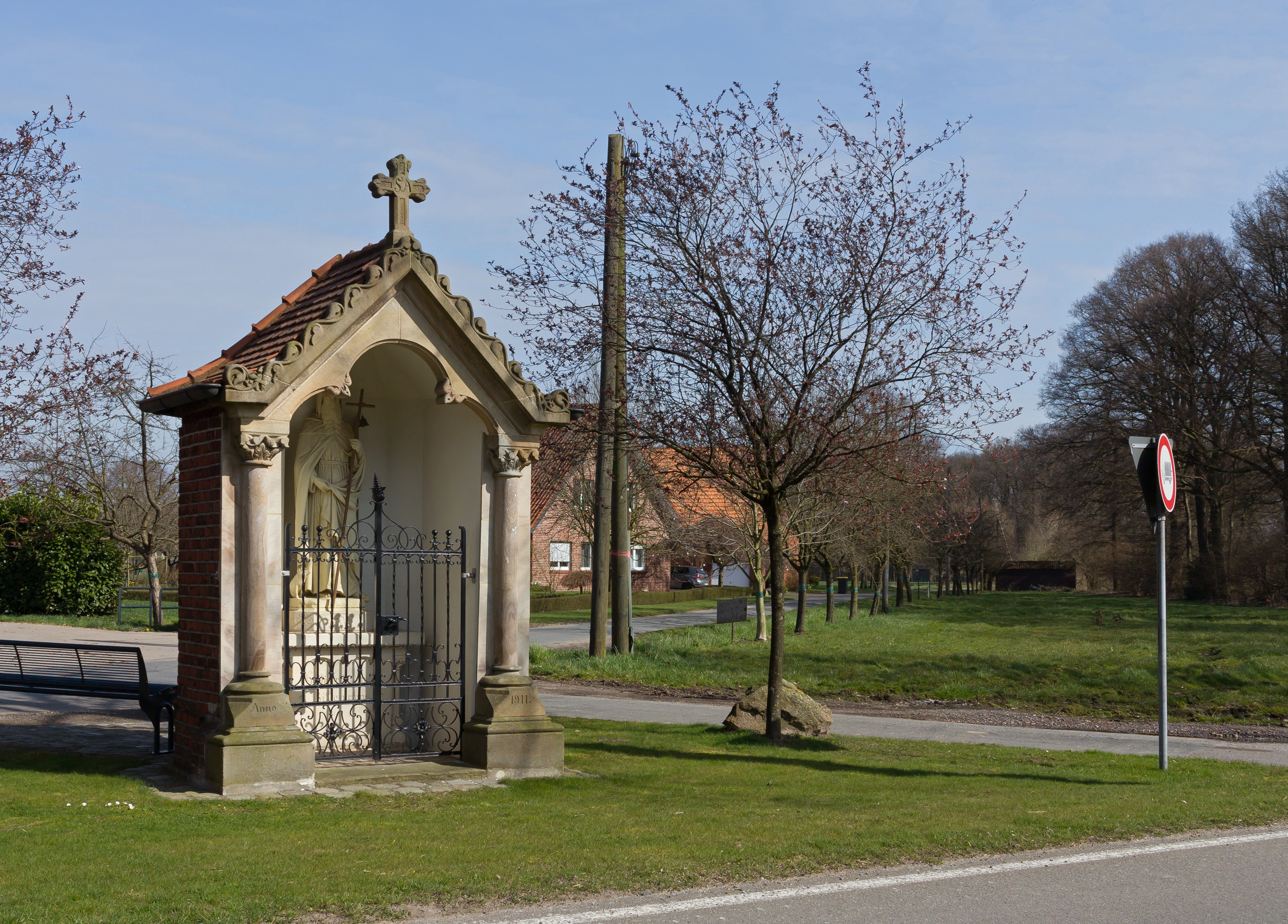 Tungerloh-Capellen, chapel